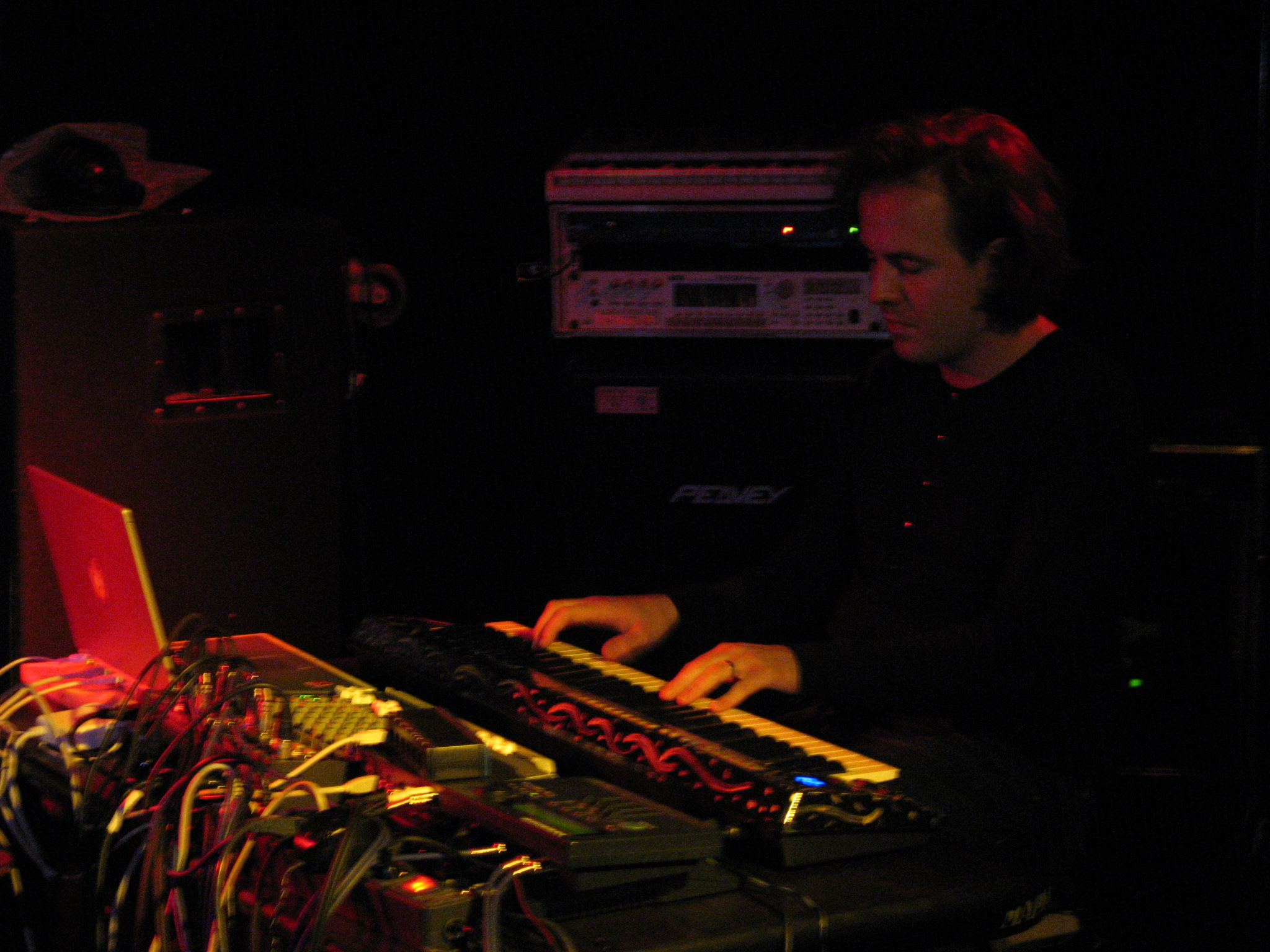 Ulrich Schnauss live at the keyboard (Club AC30, London, UK)